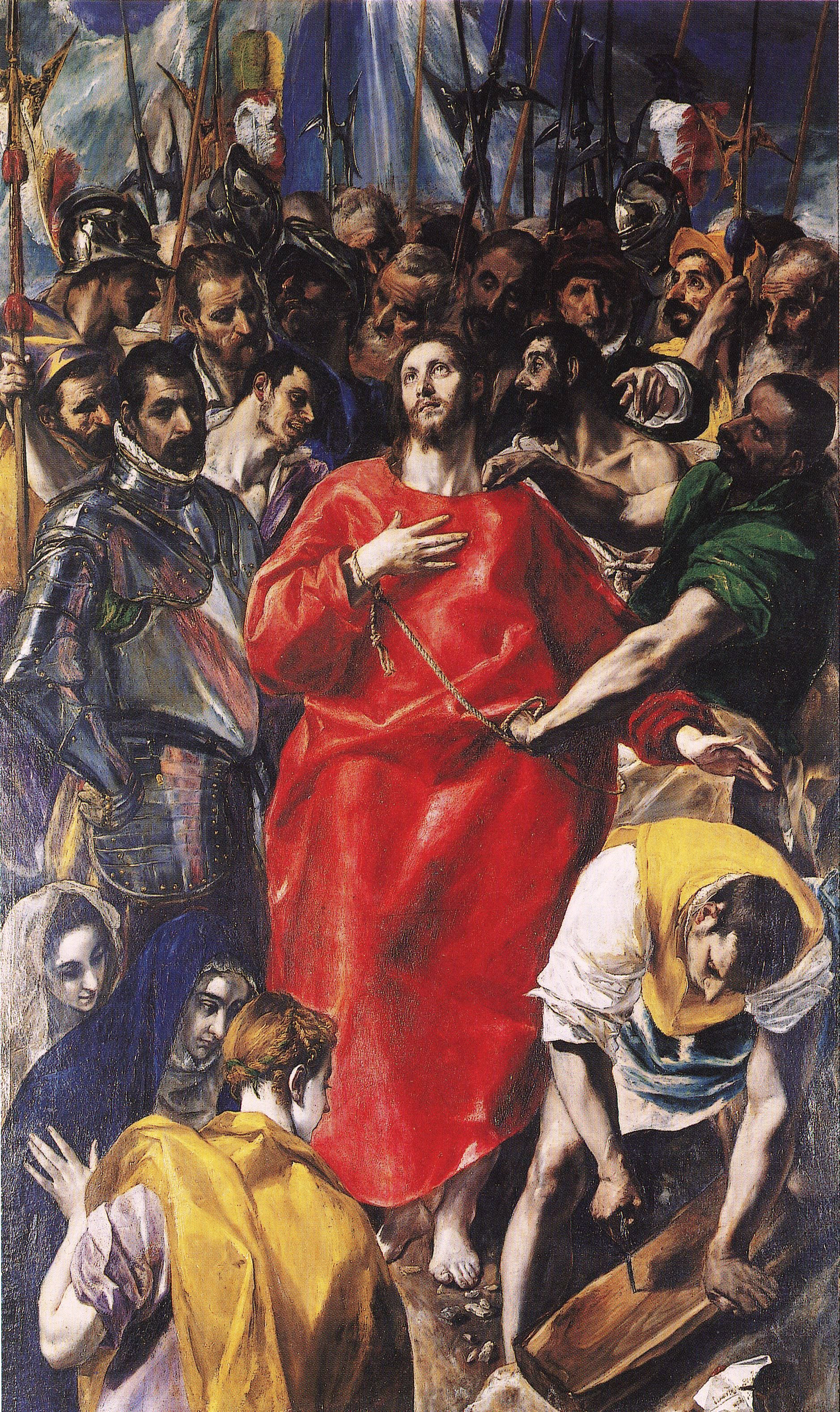 The Disrobing of Christ (El Espolio)